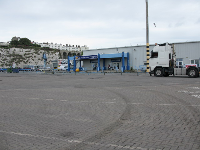 The TransEuropa Ferry terminal, Ramsgate